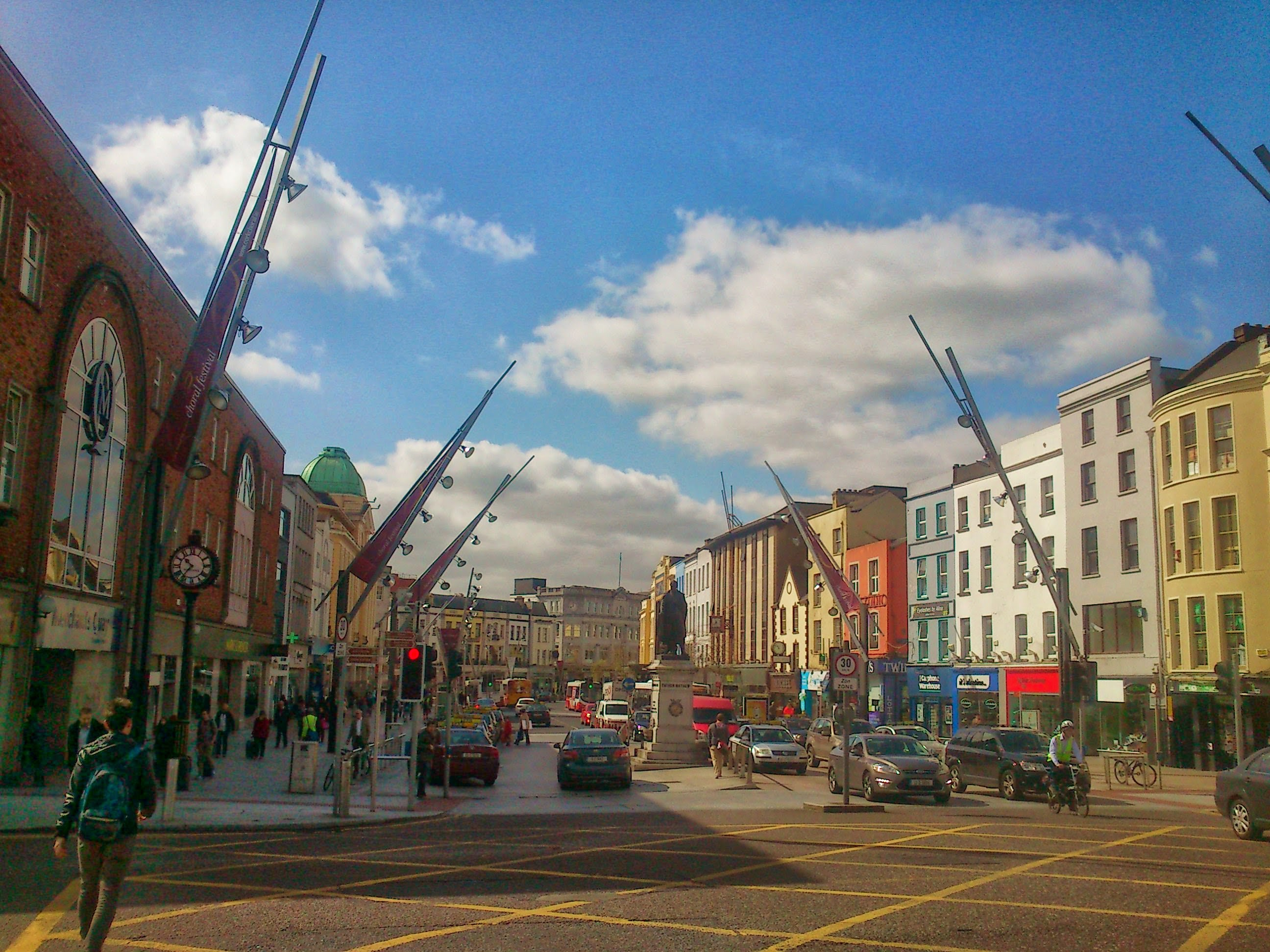 St. Patrick's Street, Cork, 14.4.14